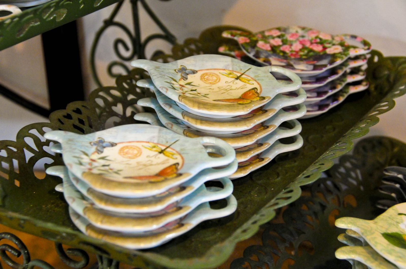 For your tea bag